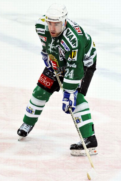 zigo palffy